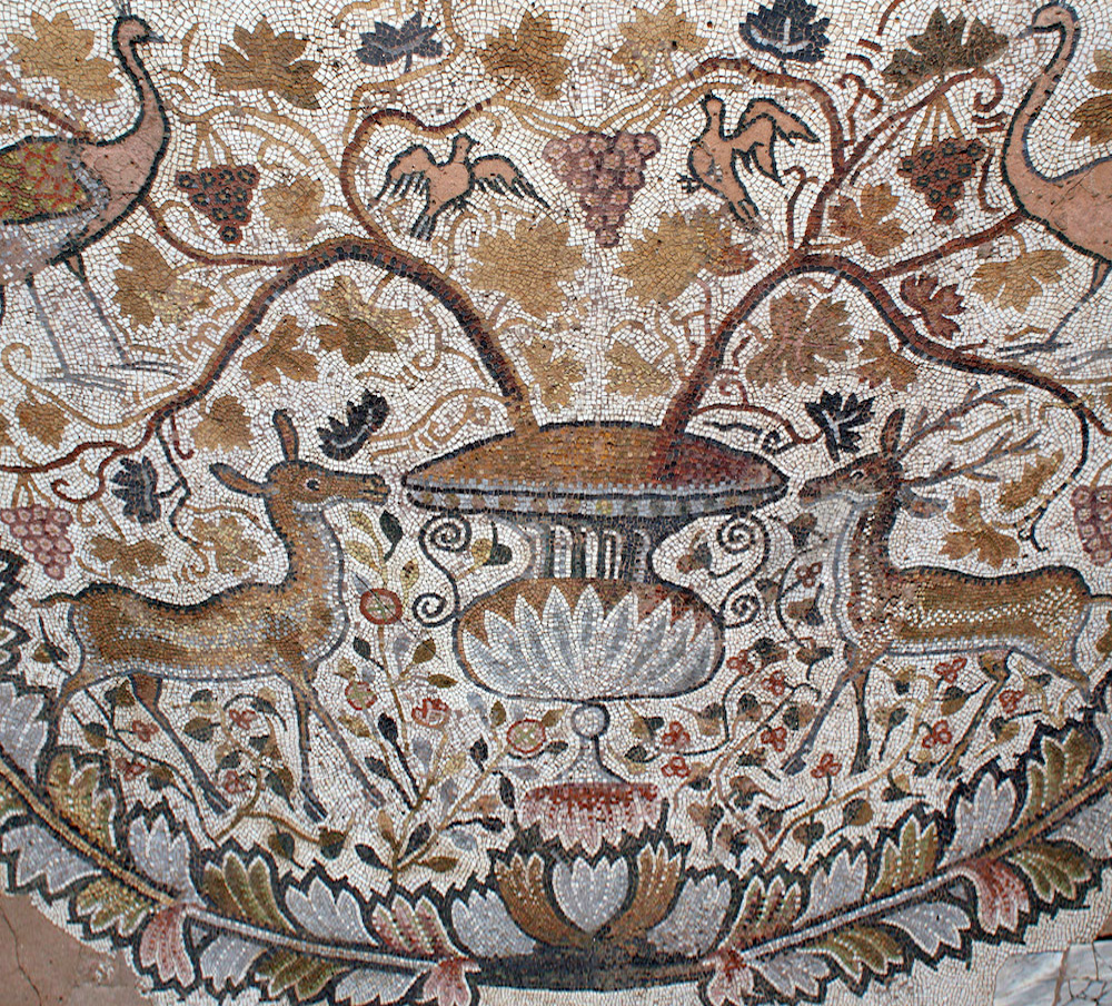 Heraclea Lincestis, Repubic of Macedonia.